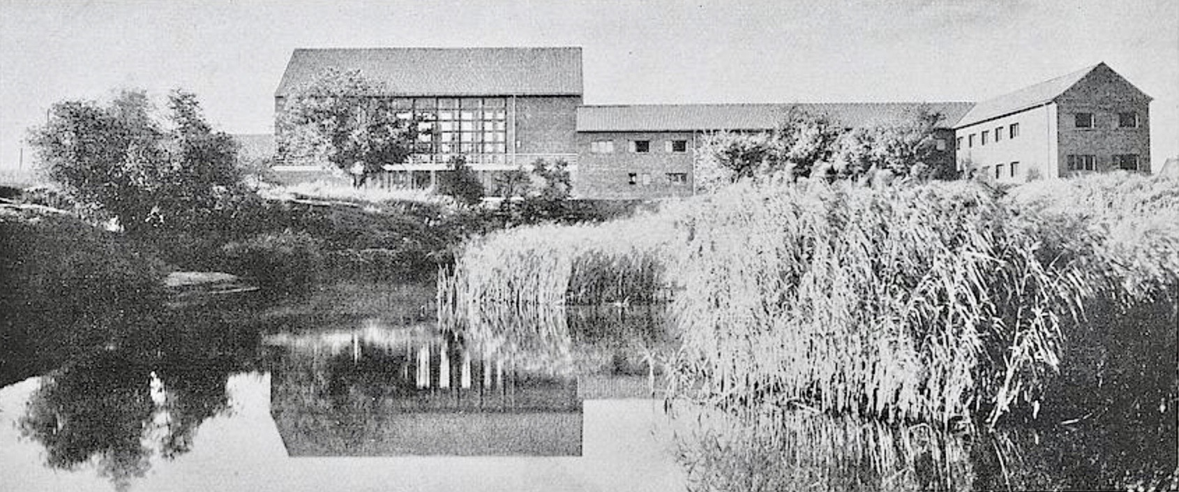 Southerly view of Musikheim in Frankfurt an der Oder, Germany, planned by architect Otto Bartning (1883–1959). On the left the large hall, planned with a stage and an organ for concerts and plays in front of 300 students or guests. The lower buildings in the center and on the right were planned and used for small student’s living quarters.